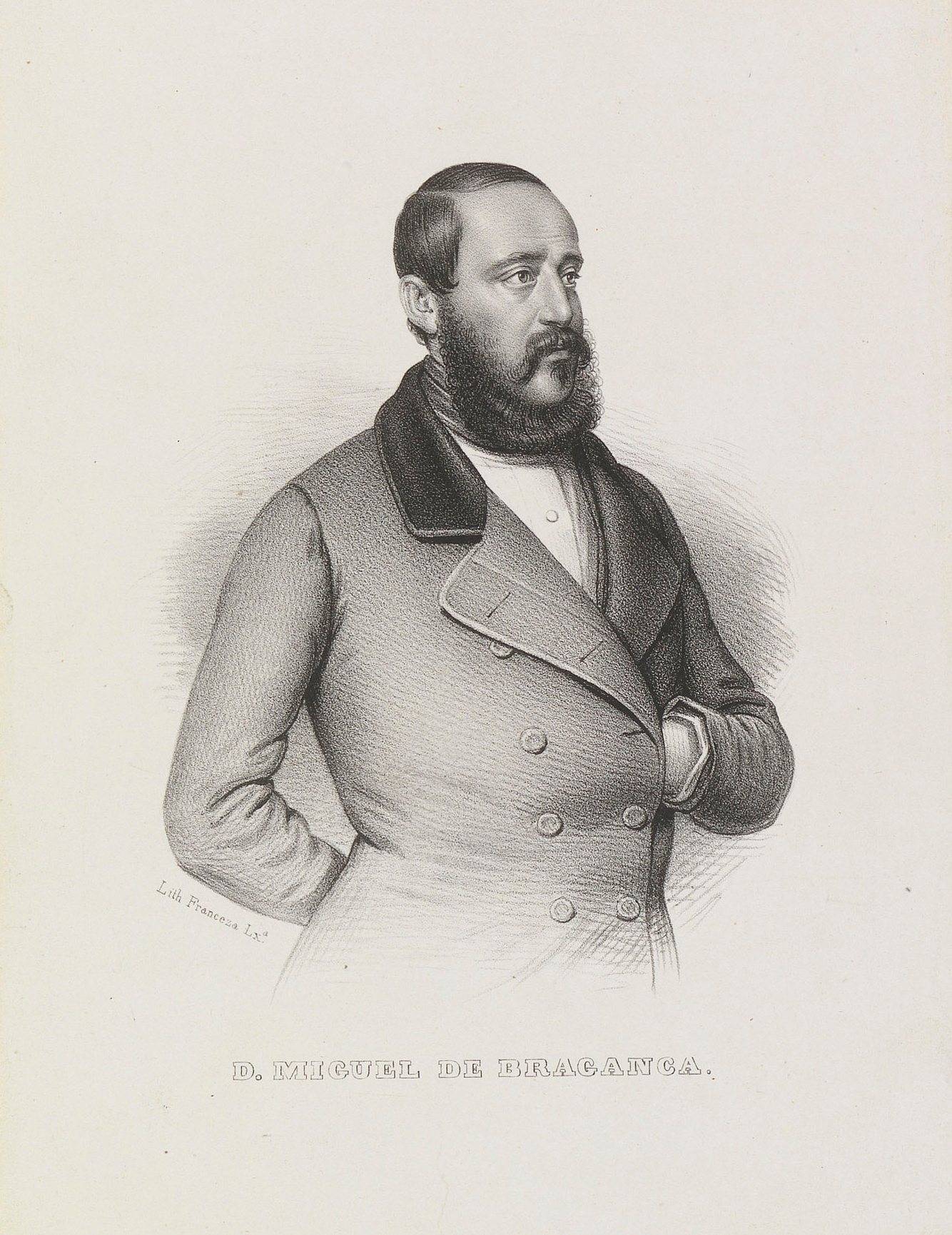 Miguel I of Braganza